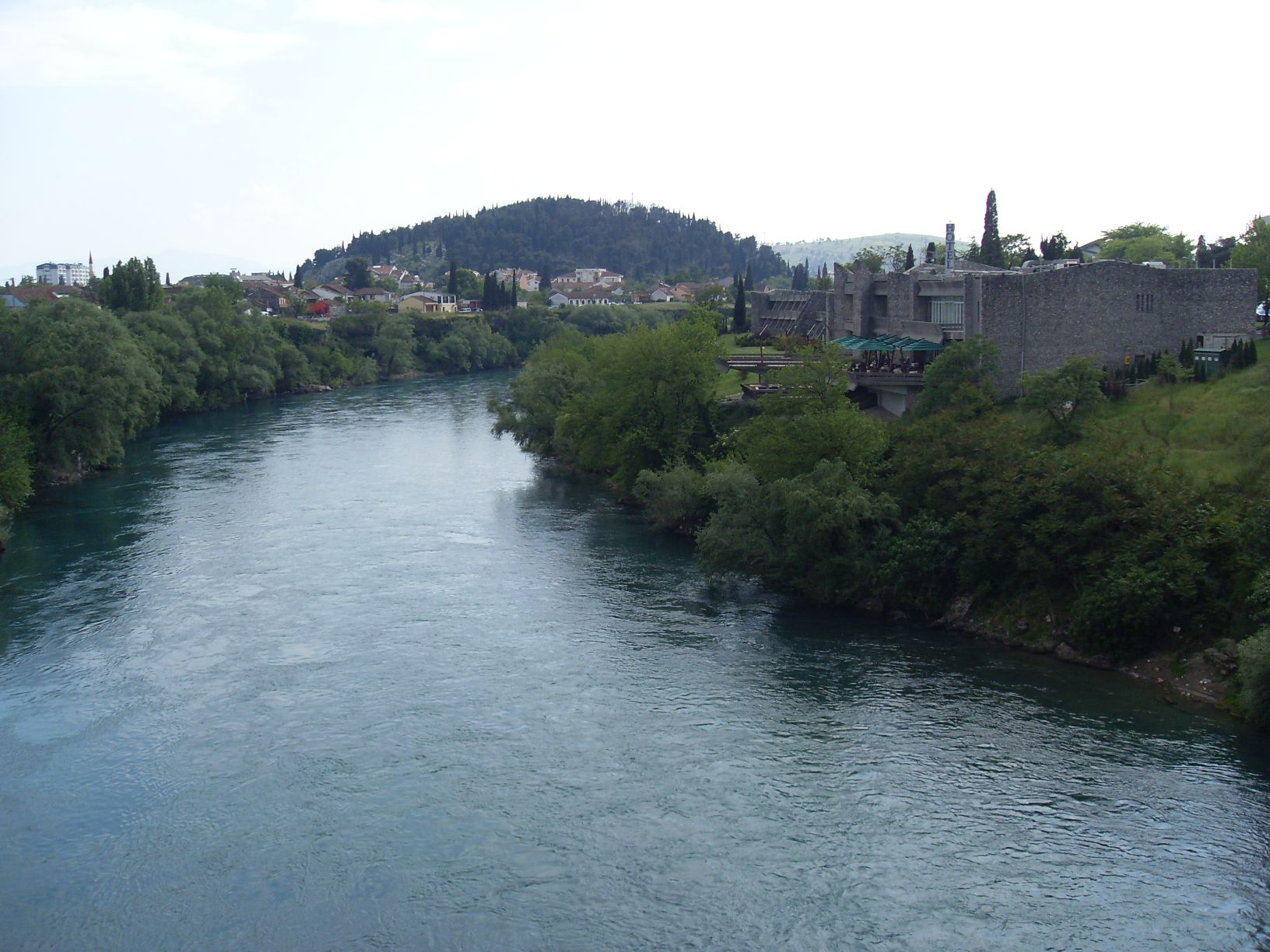 The hotel Podgorica in Podgorica/Montenegro from the back side at the river Morača Crnogorski: Hotel Podgorica u Podgorici s Morače.